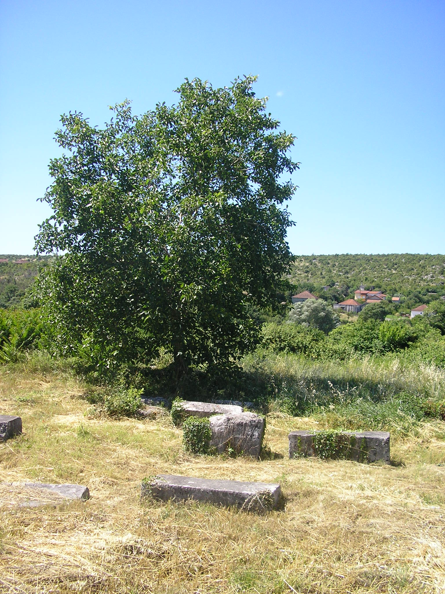 Studenci necropolis